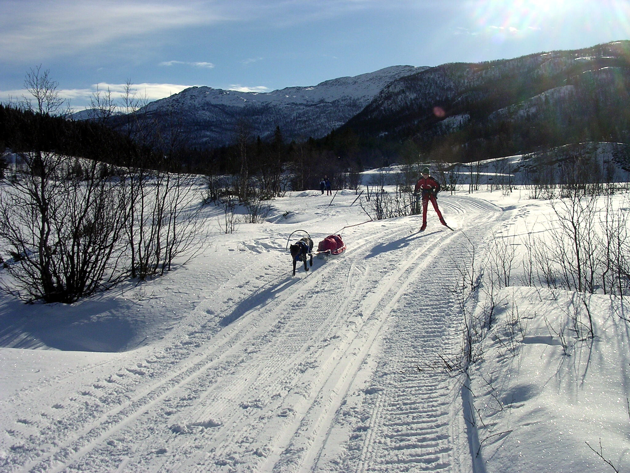 Dog racing, "nordic style" without any sled only a pulka. In the ski tracks in Hemsedal.